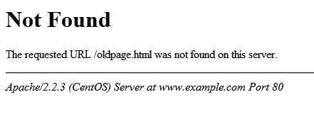 screenshot from